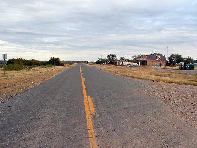 Photo of old US Highway 66 (Route 66), in Newkirk, New Mexico. Taken on October 25, 2003 at 4:30 PM local time by Joseph Houk.